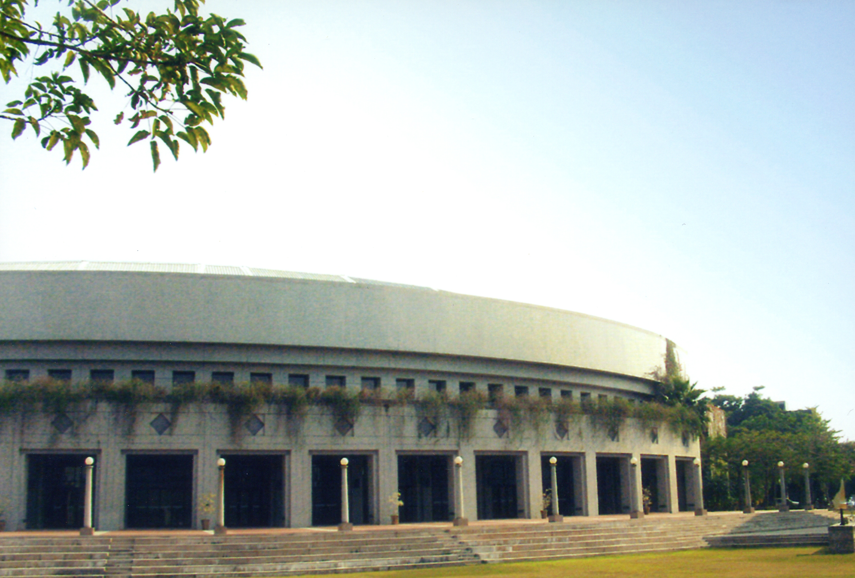 The Grand Auditorium of National Yunlin University of Science and Technology